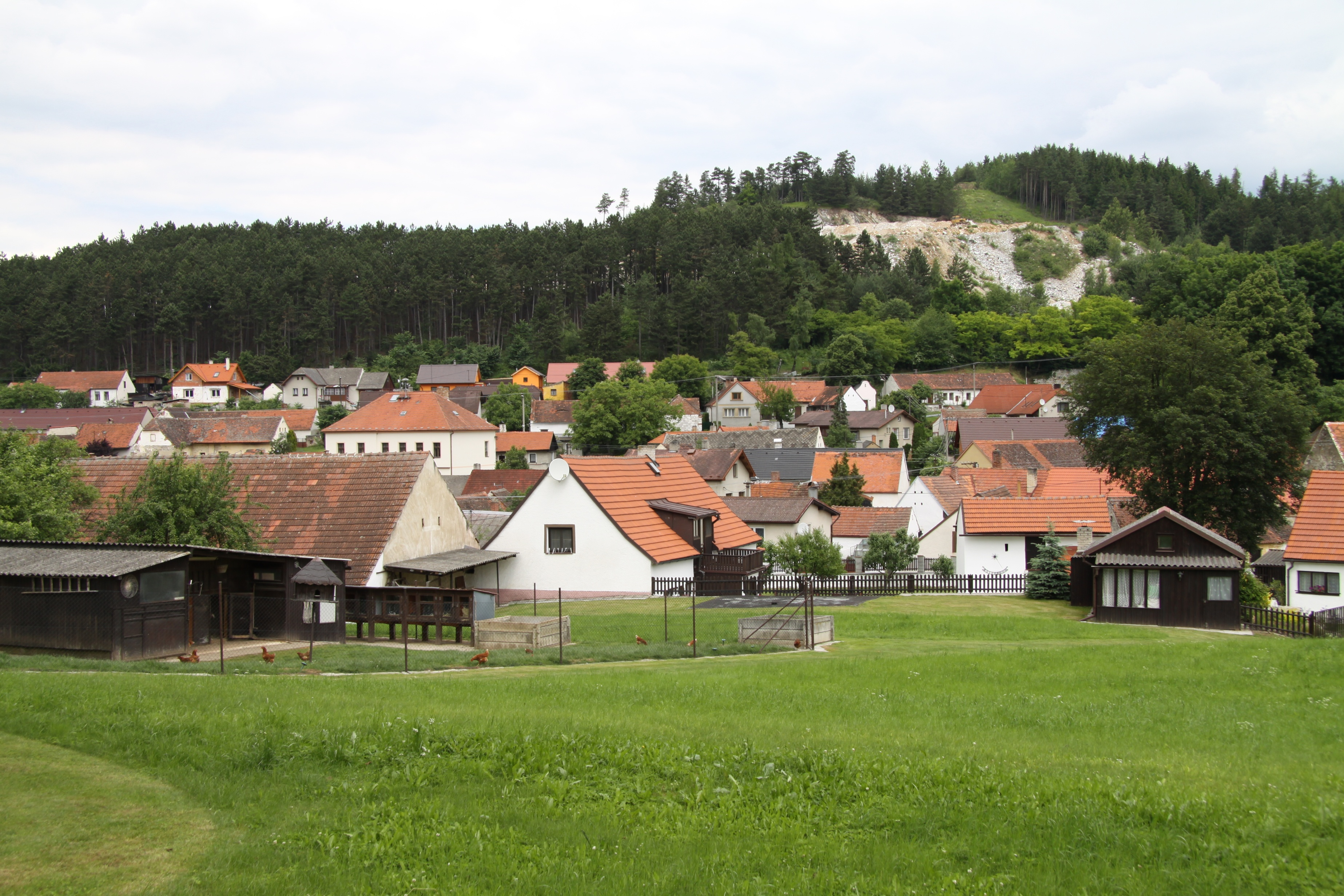 Hejná village, Klatovy District, Czech Republic This photograph was taken within the scope of the 'Czech Municipalities Photographs' grant. - Google Maps - Google Earth